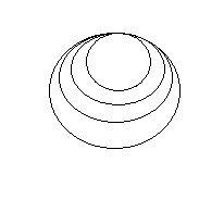 Bindu visarga in black and white